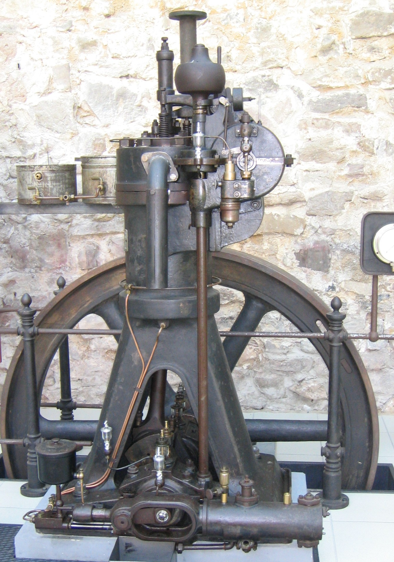 DM 12 — Stationary One-cylinder Diesel Engine (MAN, Augsburg, 1906, 9 kW) first generation, photographed at the Franziskanermuseum in Villingen-Schwenningen